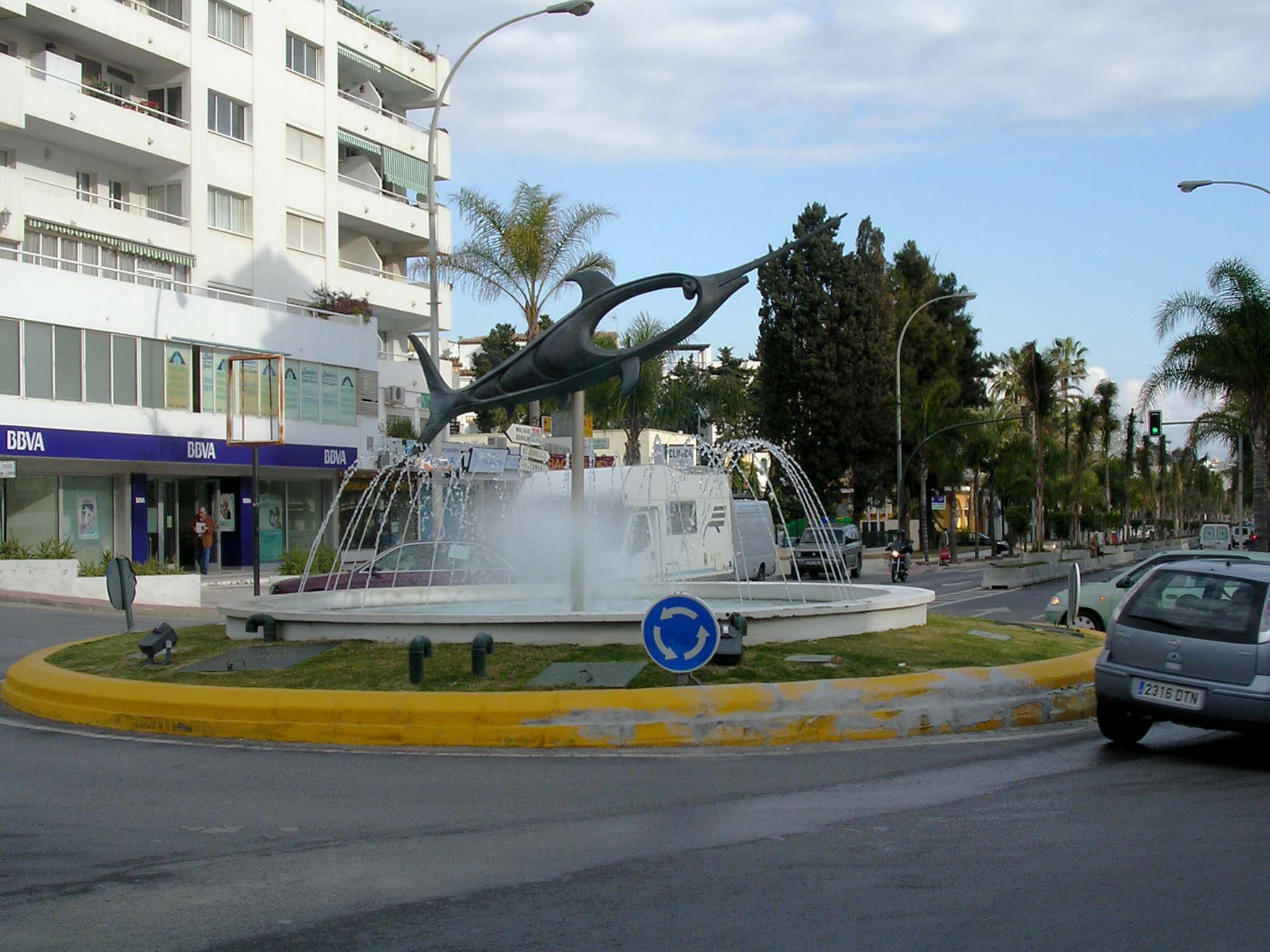 Roundabout in Montemar, Torremolinos.